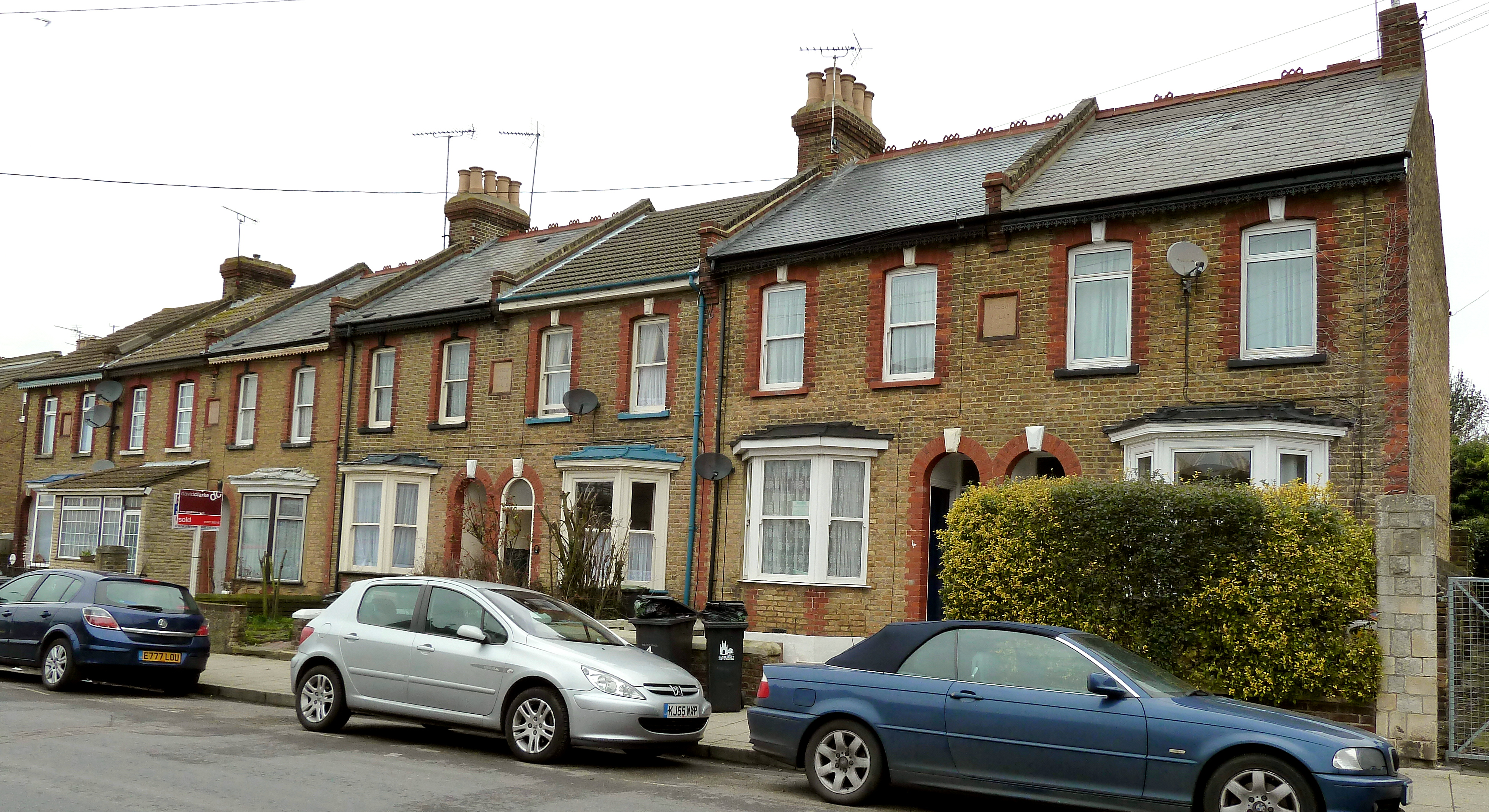 Kingsbury Villas in King's Road, Herne Bay, Kent, England. Number 4 is the second house from the right, and this is where Lydia Cecilia Hill and her parents lived from about 1917 until 1927. She later became a favourite of Ibrahim, Sultan of Johore.